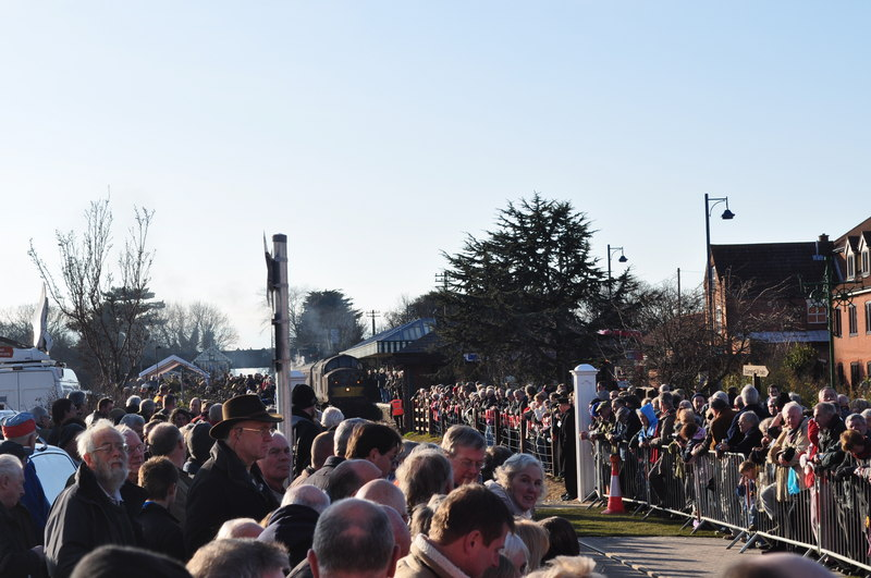 The Crowds Return to See the Diesel. The streets soon filled up again to see the return journey of the Broadsman train back to Norwich and London. The diesel (37516) is waiting for its 4:10pm time slot for it to return home. Imagine this twice as busy, that's how bad it got for the first trip with Oliver Cromwell two hours earlier. For the train crossing see 1757355. The van with a satellite dish on the roof is an ITV Van, ready for the ITV Anglia news at 6:00pm.